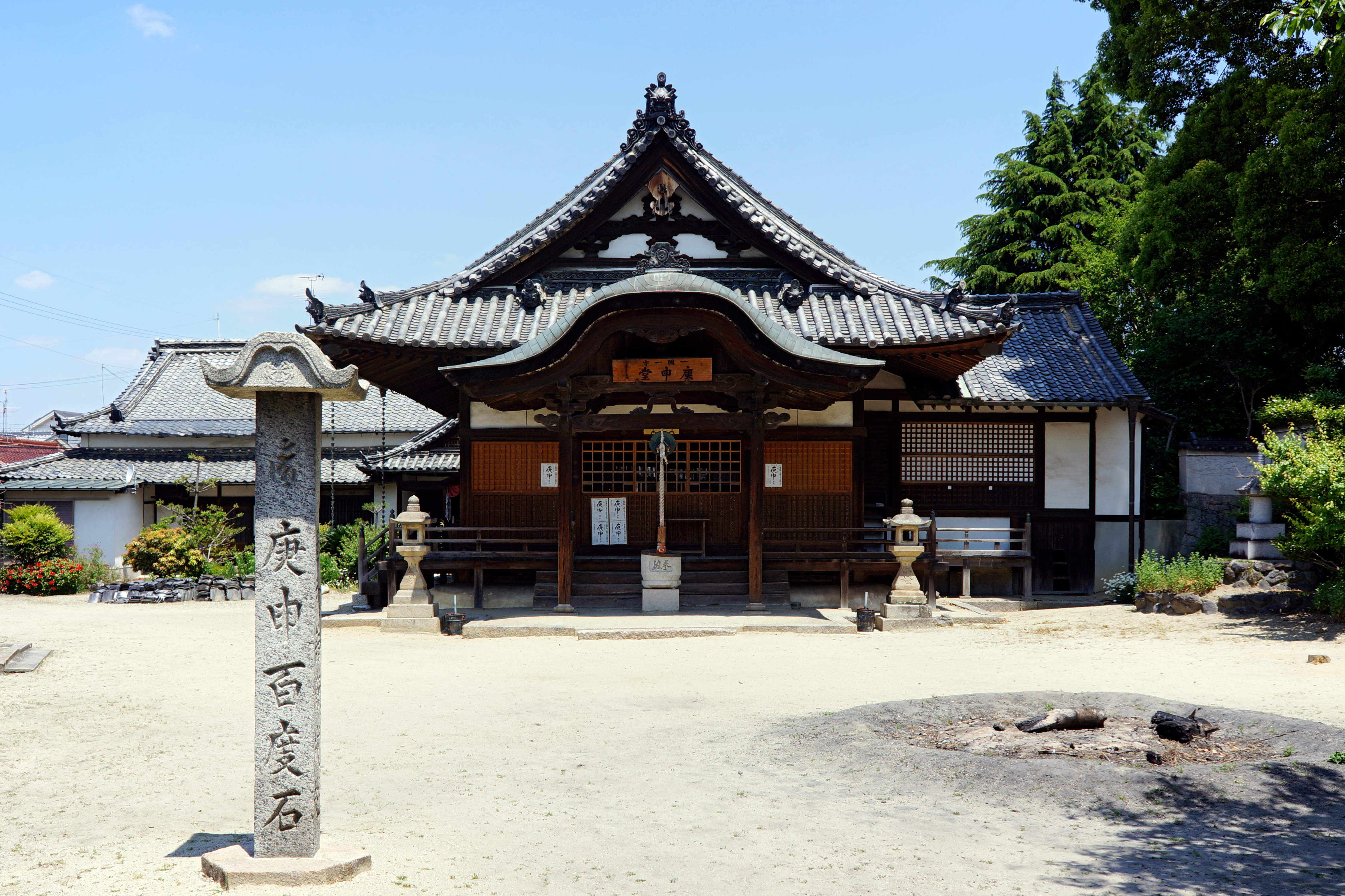 Konrin-in in Yamatokoriyama, Nara prefecture, Japan.